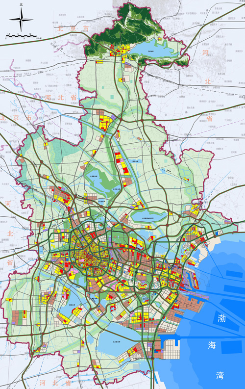 "Tianjin recent urban planning (2011-2015)",the documents from Government of Tianjin City，P.R.China in 2011